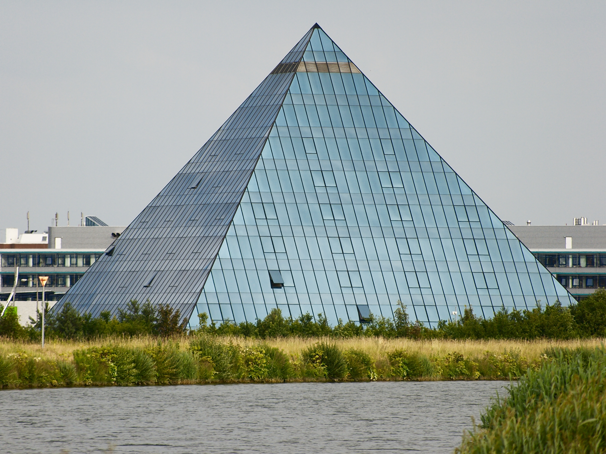 Building Hotel Pyramide, Fürth (Bavaria, Germany), fotographed from the western bank of the Rhine–Main–Danube Canal.